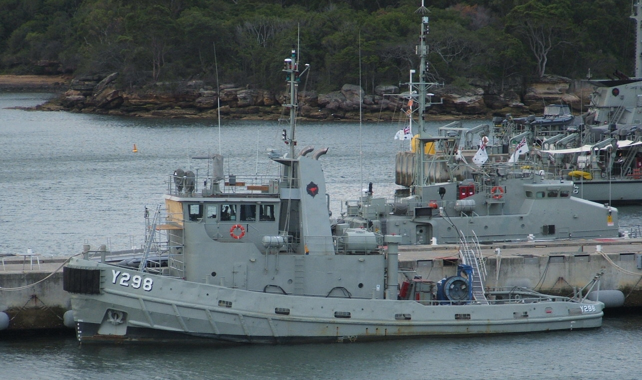 The Royal Australian Navy Minesweeper Auxiliary (MSA) Bandicoot, berthed at the naval base HMAS Waterhen